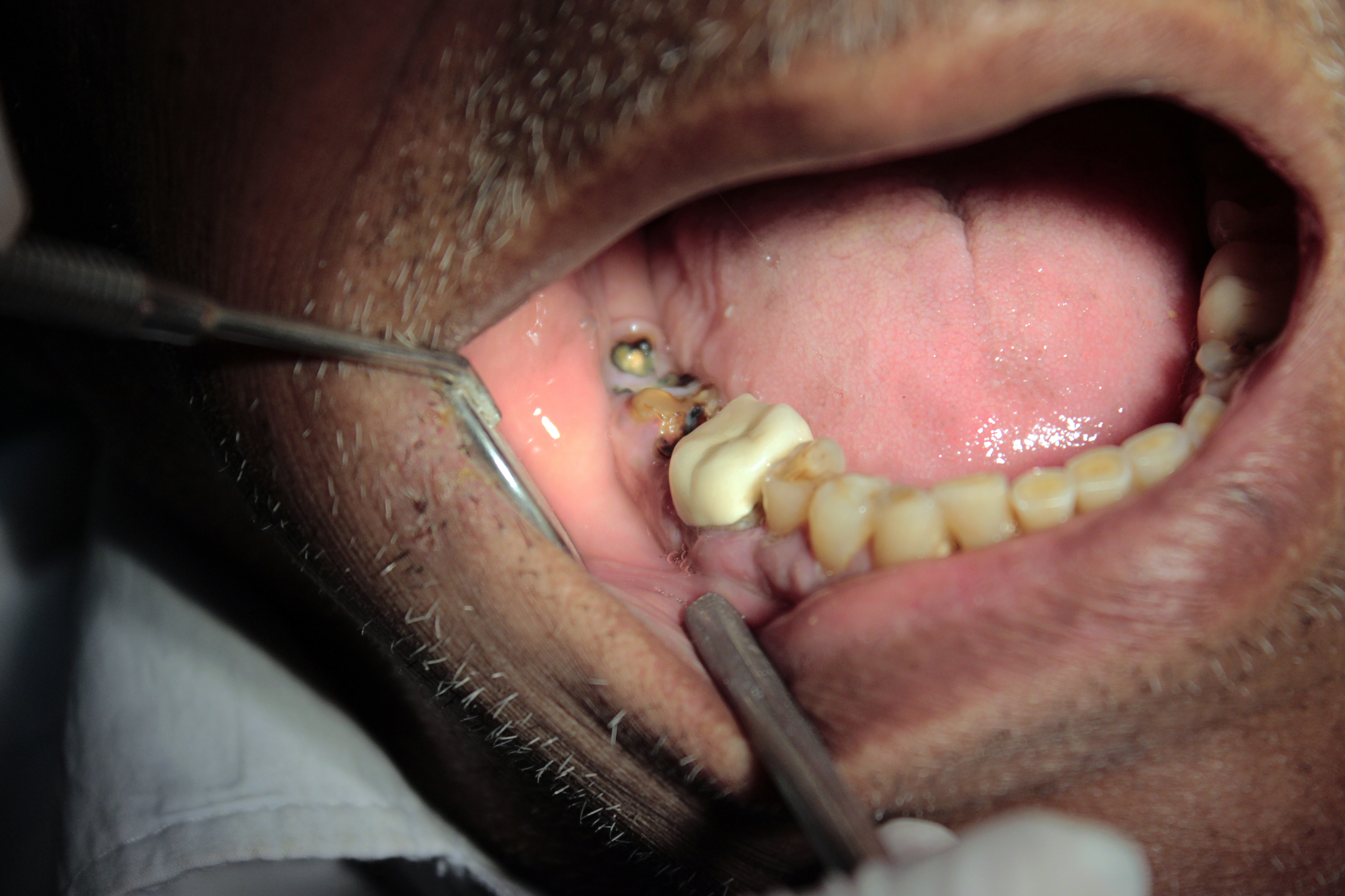 Tooth capping